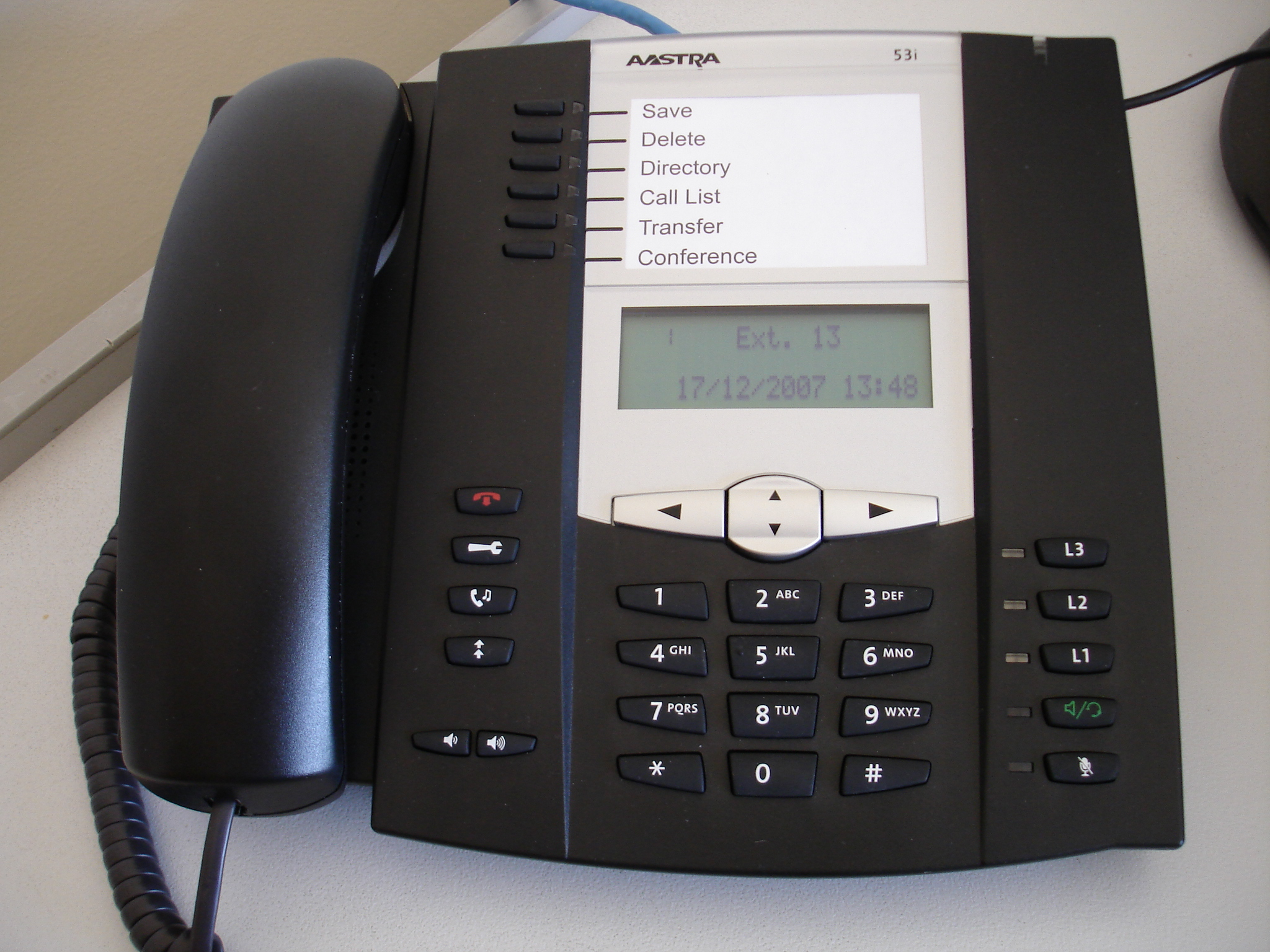 An Aastra 53i VoIP handset. Photo taken myself.